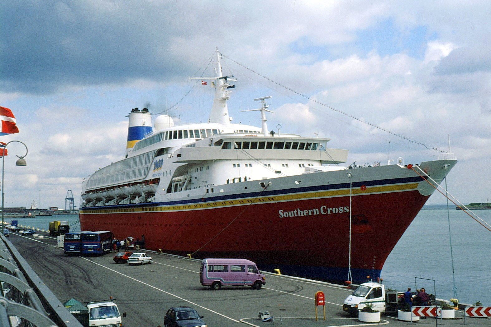 The cruise ship Southern Cross moored at Copenhagen on May 16, 1995.